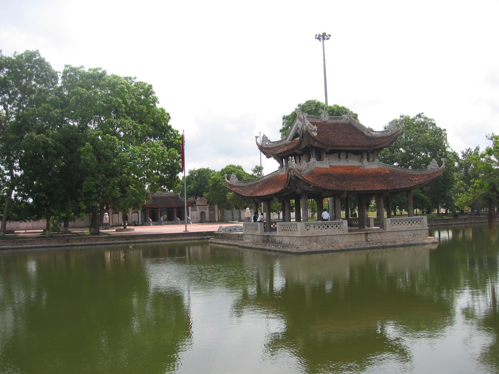 Ly Bat De Shrine: "Half-moon" lake, Water pavillion, and Five-dragon gate.